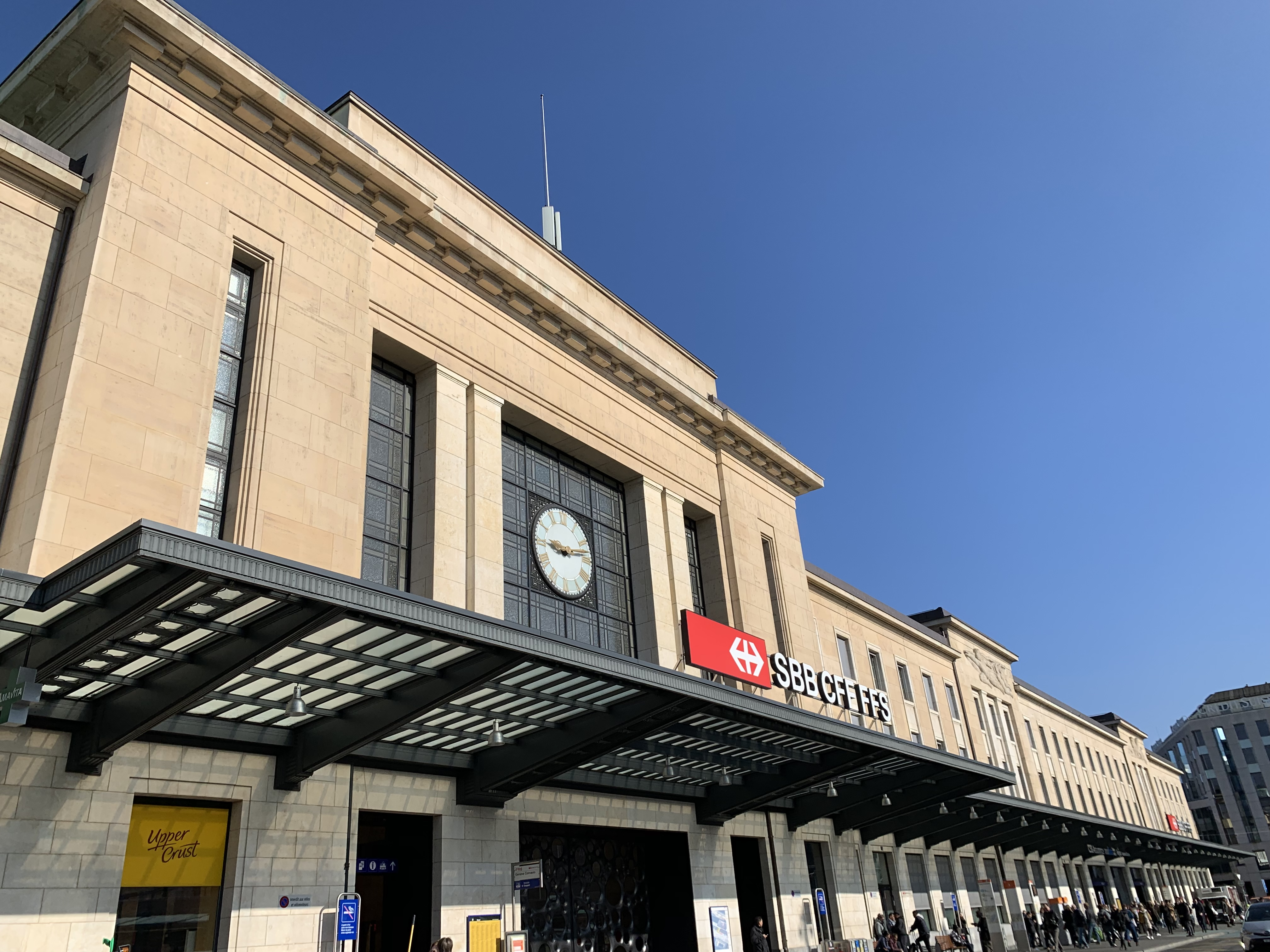 Photograph of Geneva's main station as of March 2019